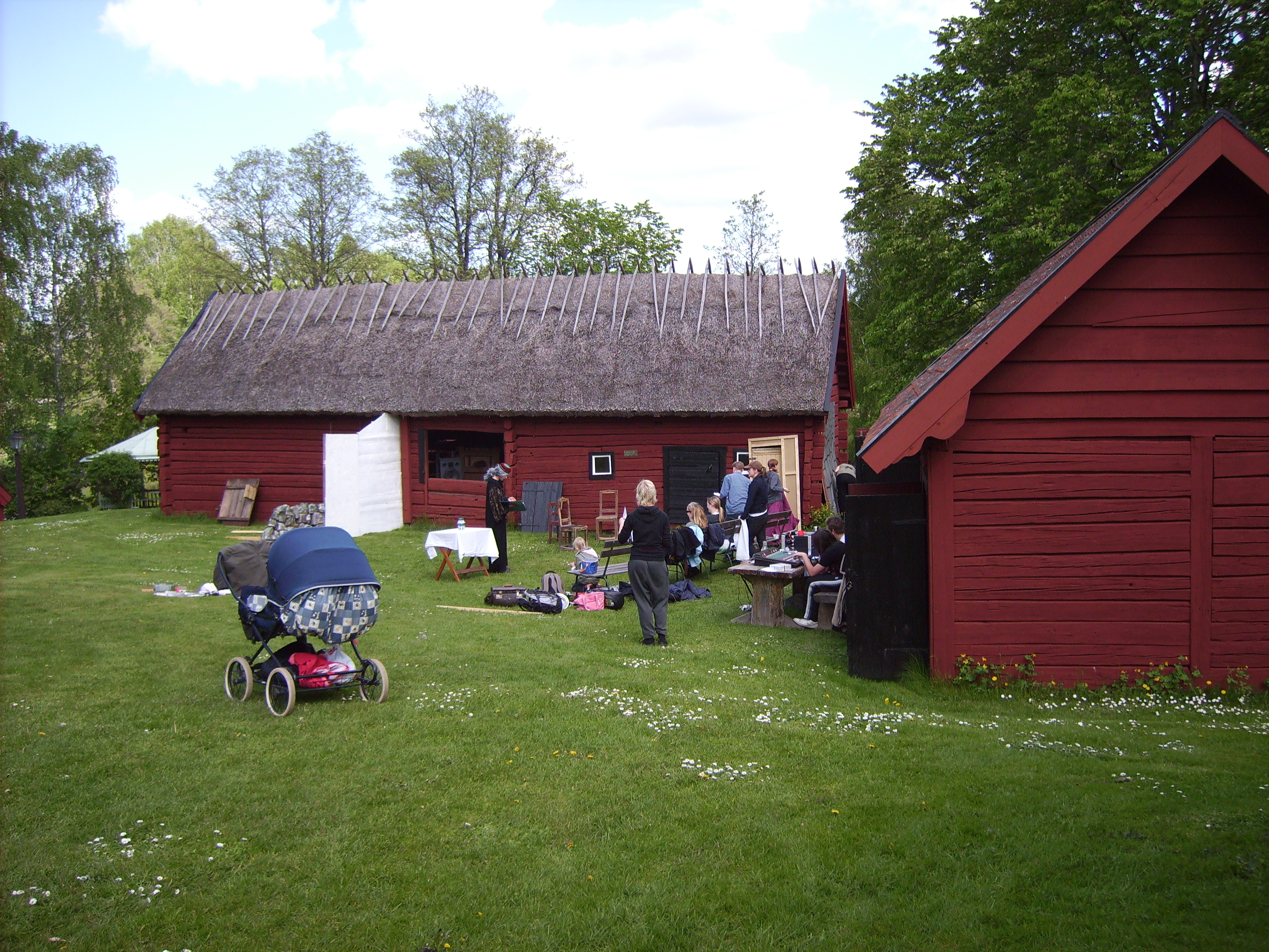 The folk museum “Mjölby hembygdsgård” in the town Mjölby, in the Swedish province Östergötland.